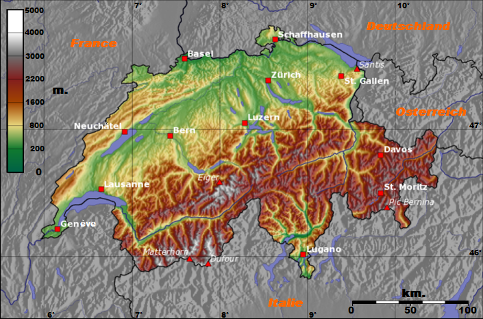 Topographic map of Switzerland.